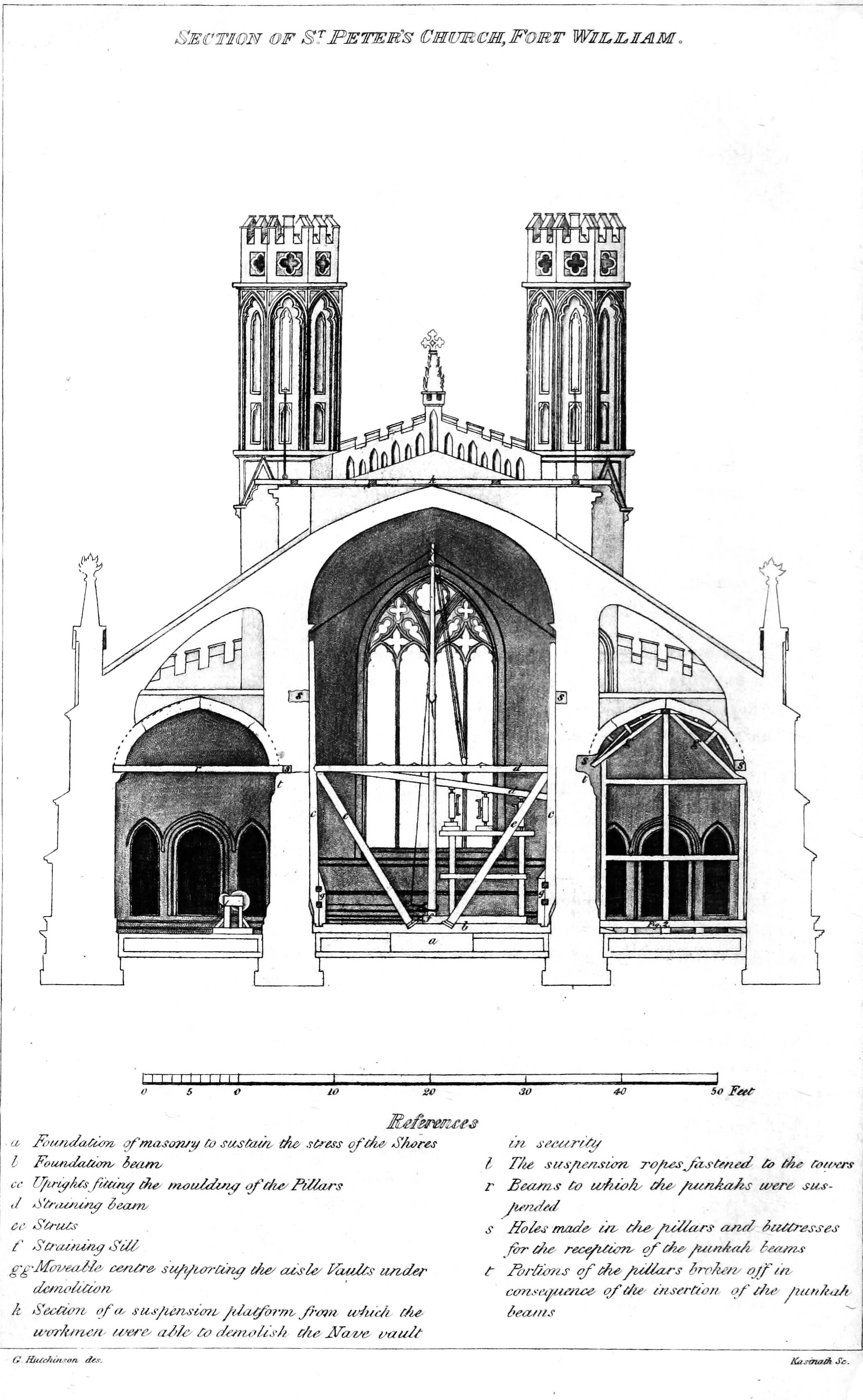 Front plan of St. Peter's Church, Fort William, Calcutta